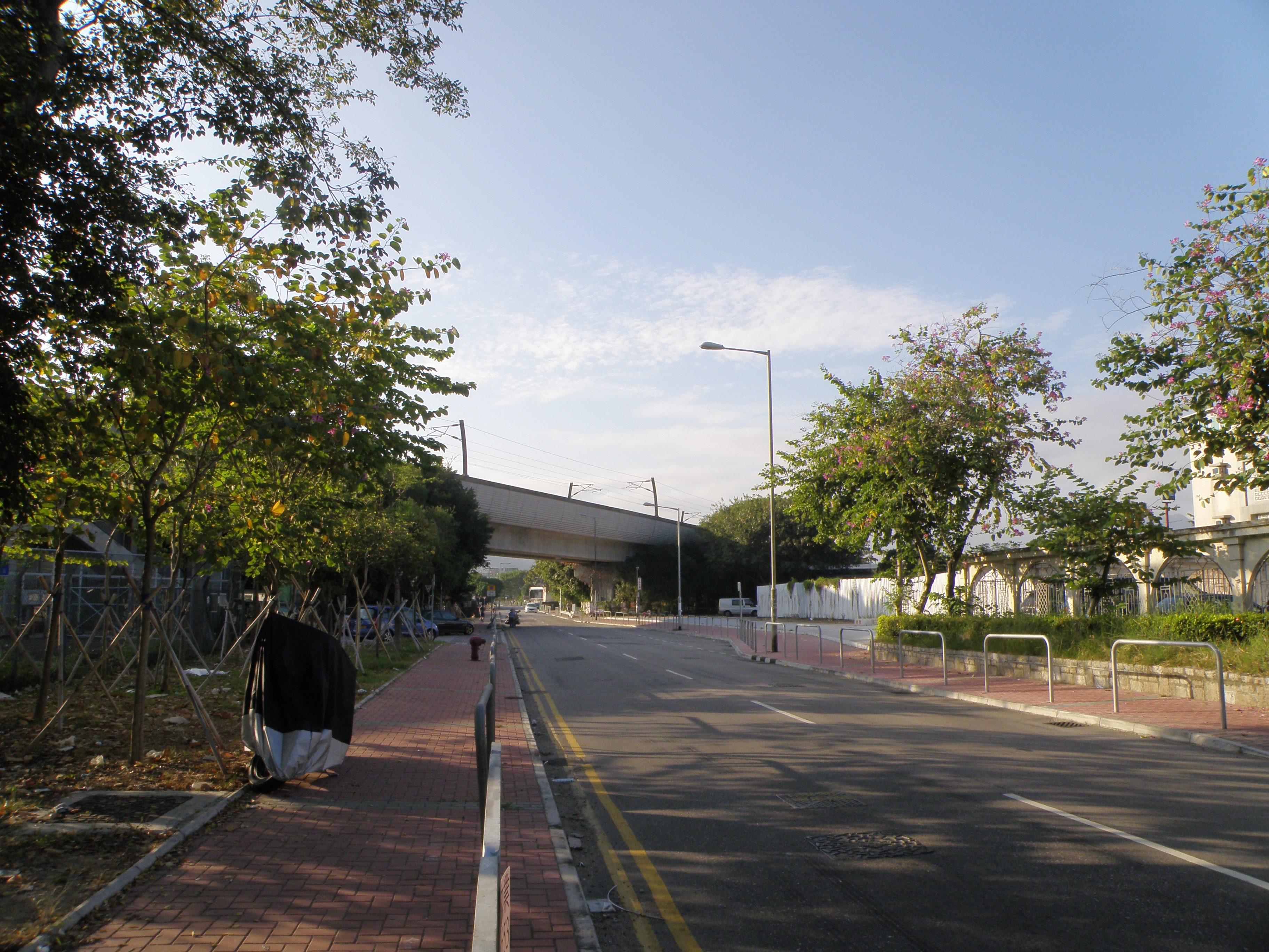 Tin Ha Road in Hung Shui Kiu, Hong Kong.